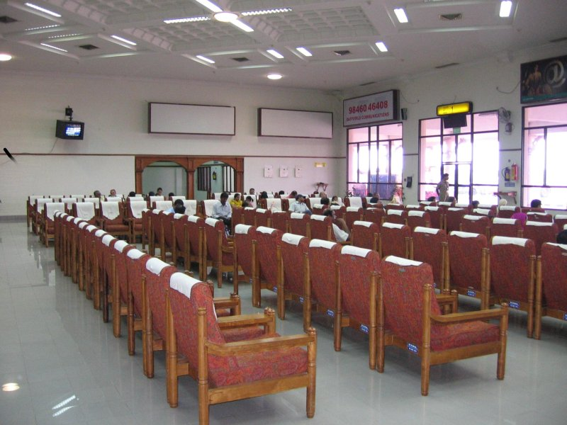 Cochin International Airport Departure Area, picture was by DuKot in August 2005